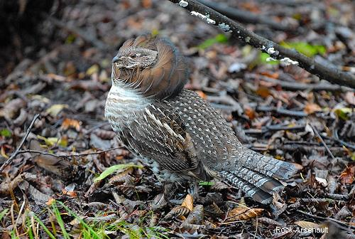 Ruffed Grouse displaying